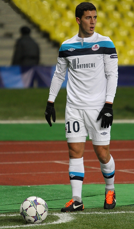 Belgian football player Eden Hazard during 2011/2012 Champions League match between CSKA Moscow and Lille OSC